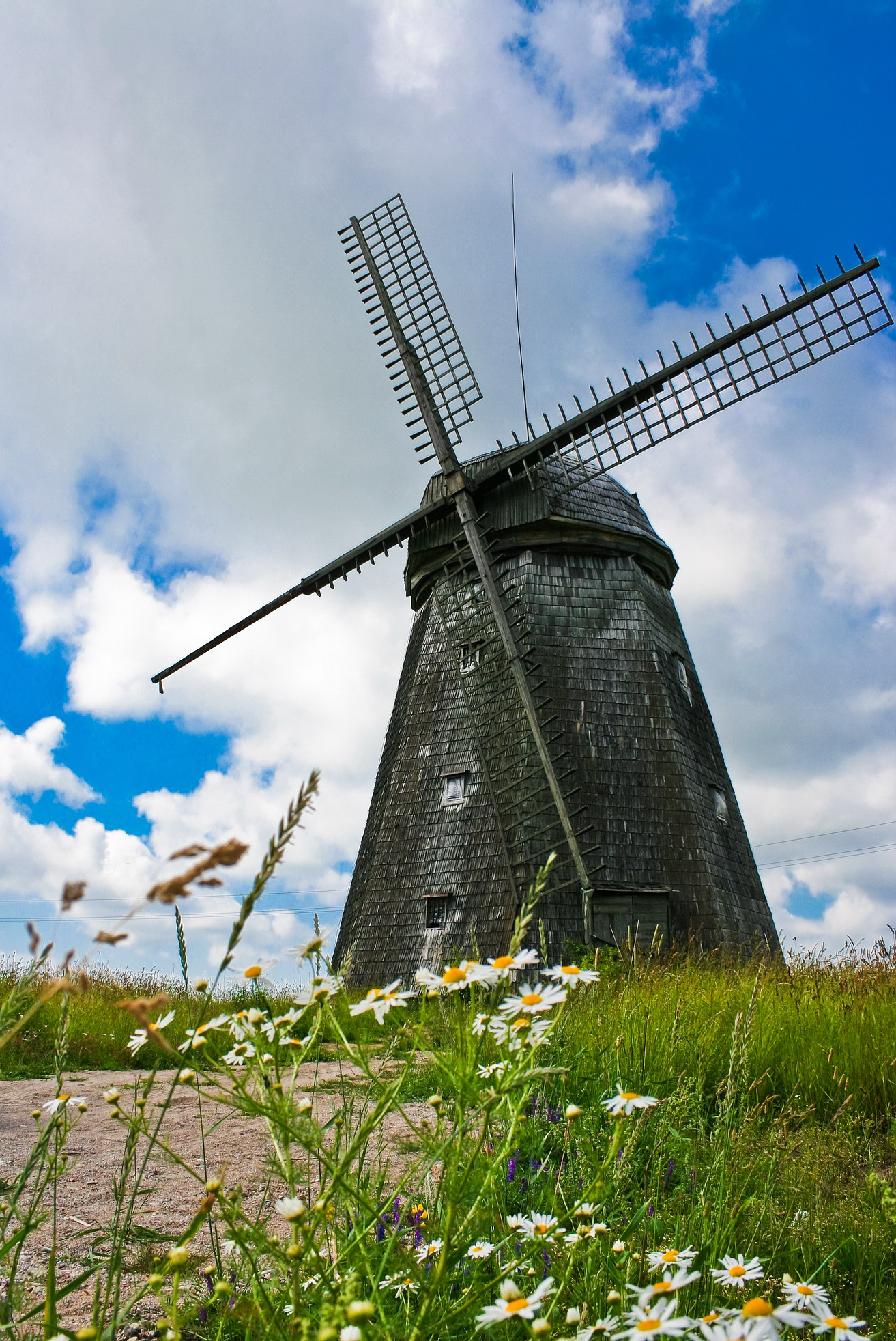 Windmill 1 km ESE from Lazdininkai